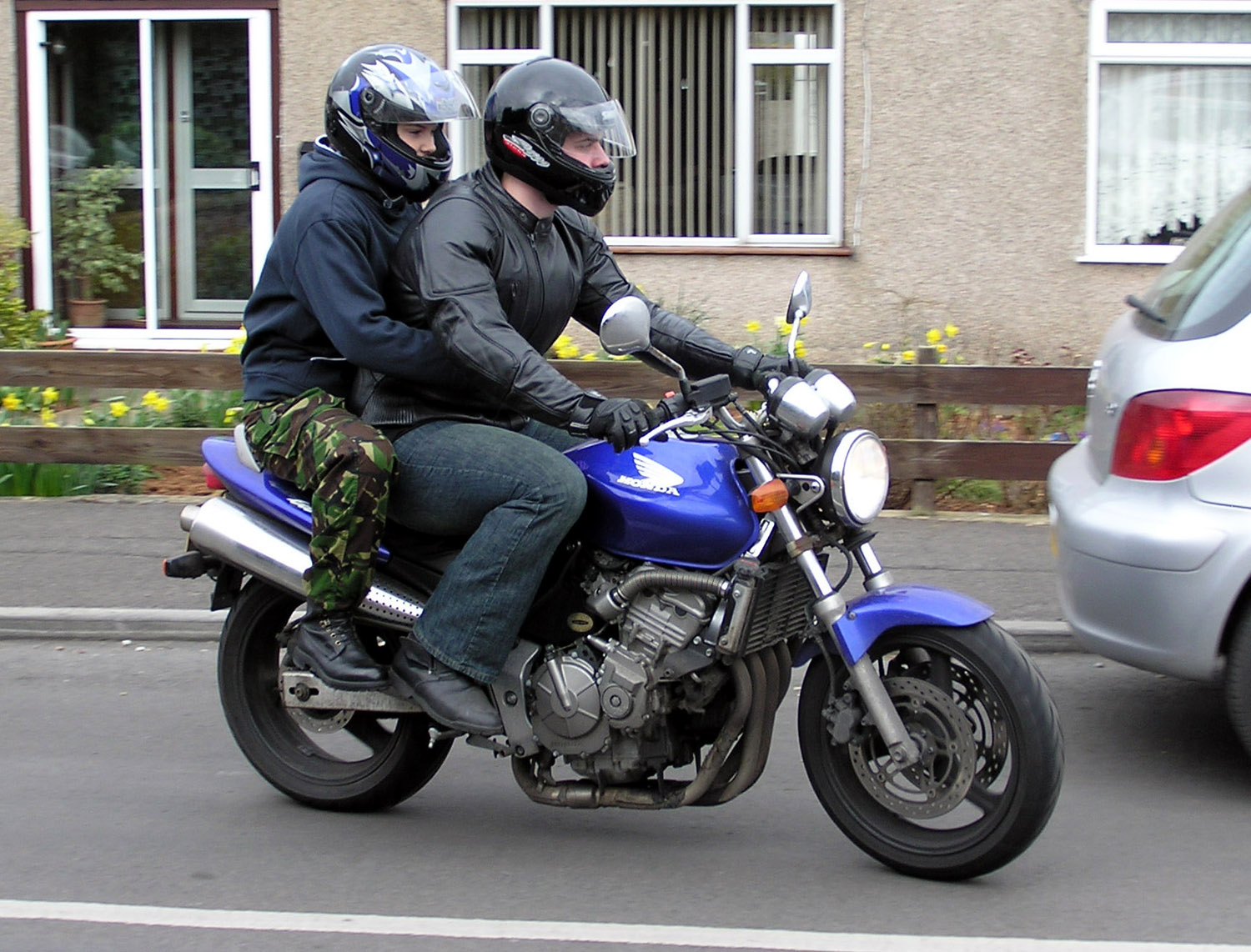 Motorcyclists in Yate, Bristol, England on a Honda CB600F Hornet (600cc), registered in the year 2000. Taken by Adrian Pingstone in March 2005 (with the permission of the riders), and released to the public domain.